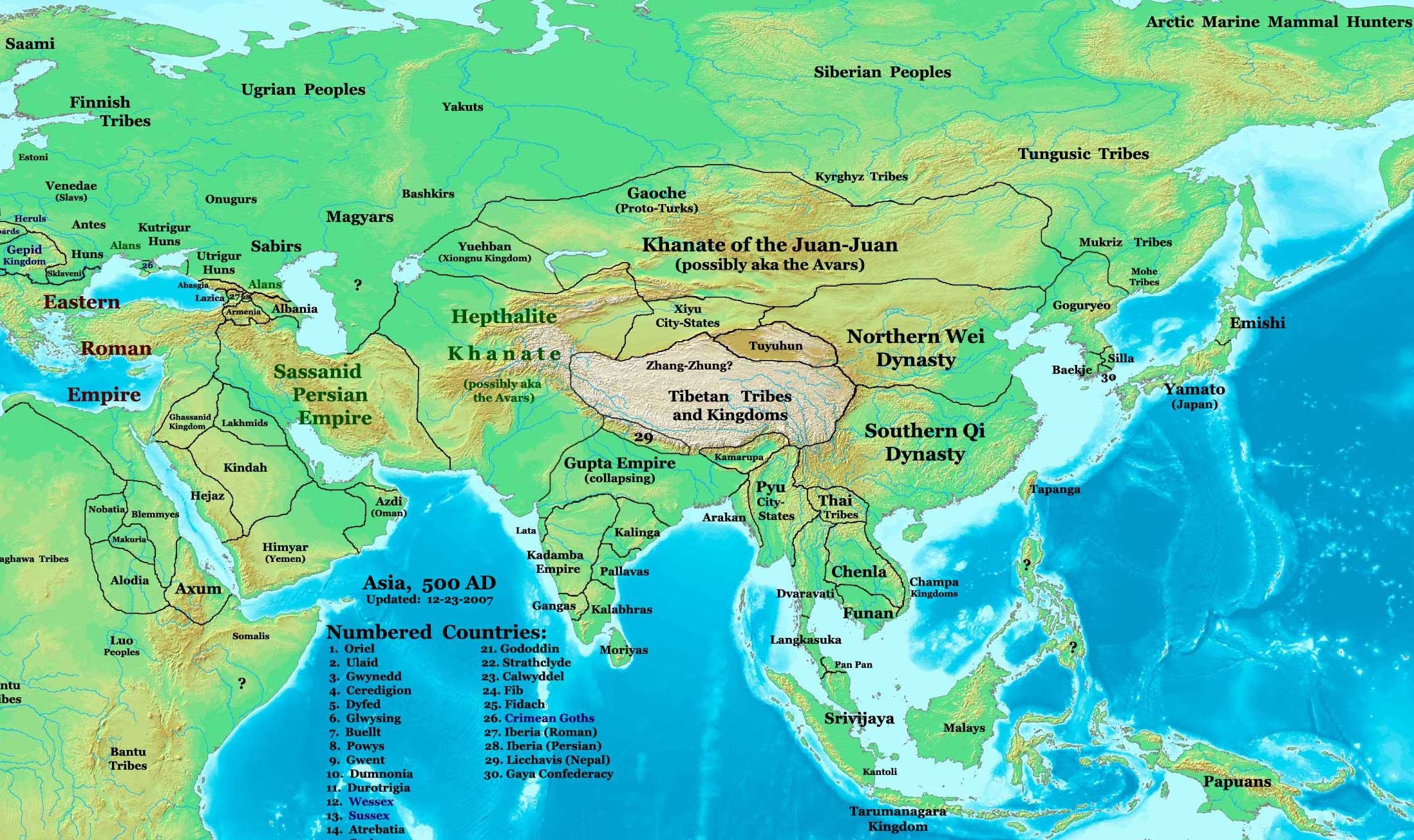 Map of the Eastern Hemisphere (partial), centered on Asia in 500 CE, at the turn of the 5th to 6th centuries.